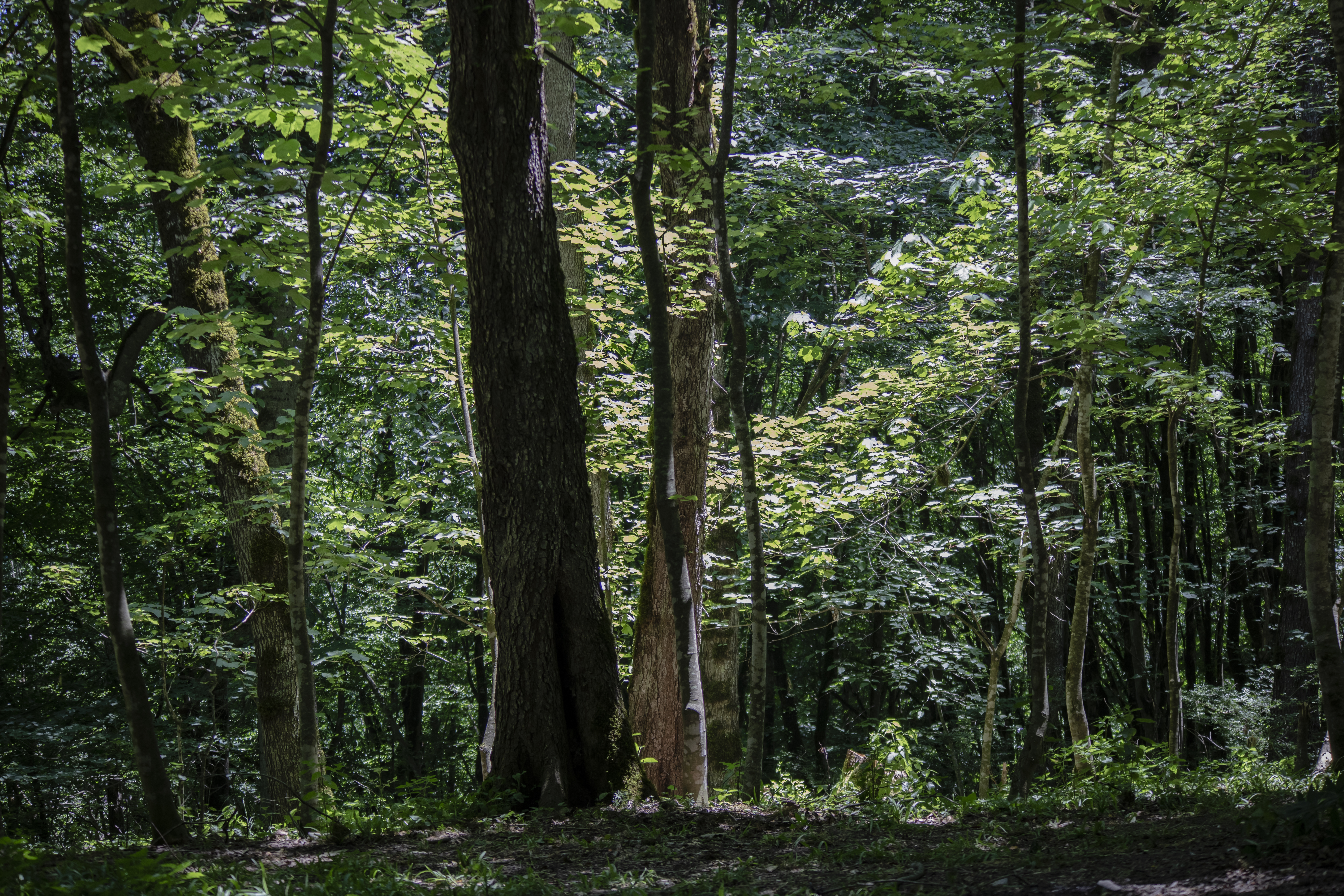 Nur County is a county in Mazandaran Province in Iran.